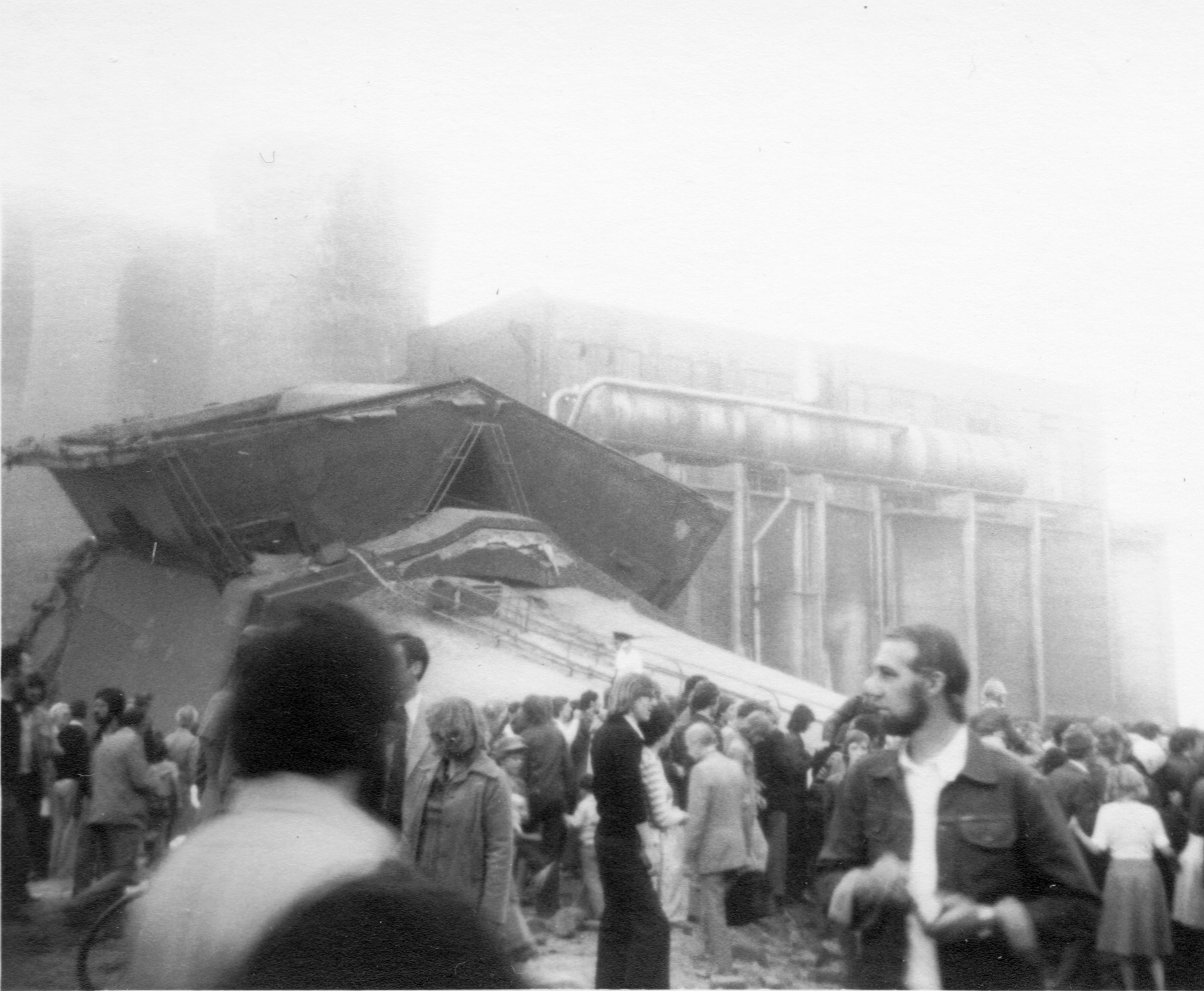 Demolished chimney Lange Jan of Oranje Nassau Mine I, Heerlen, The Netherlands